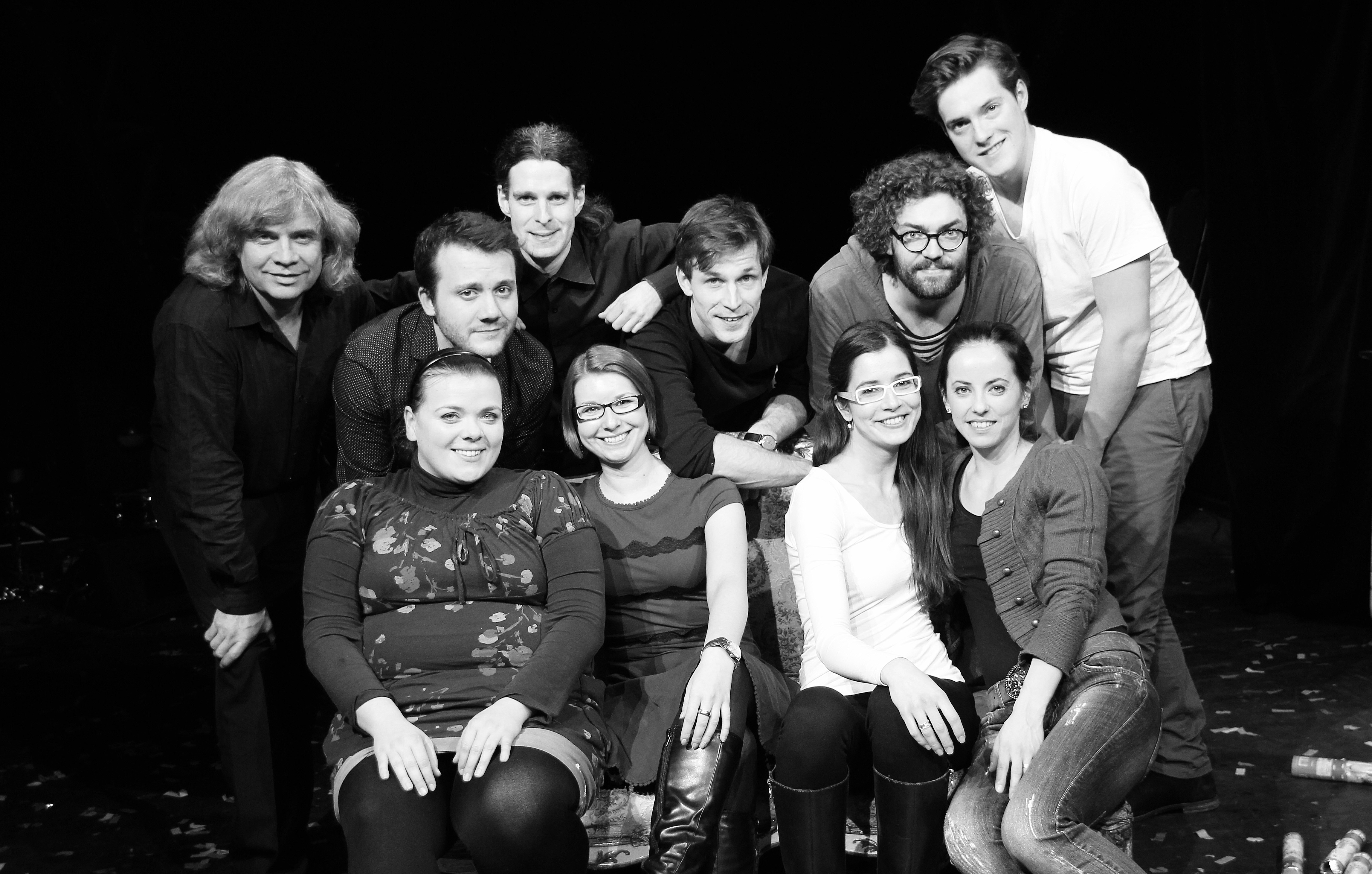 Cabaret Calembour (2016)